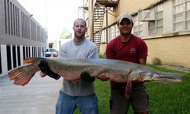 TA&M Research Project on Gars of the Brazos River system.